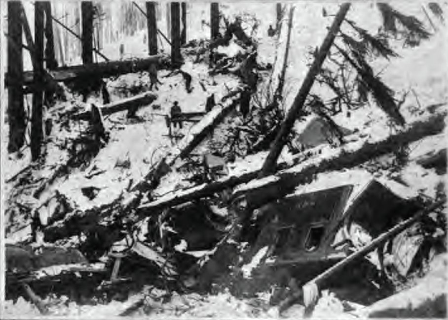 Photograph of the debris field including wrecked train cars following the Wellington Avalanche March 1910